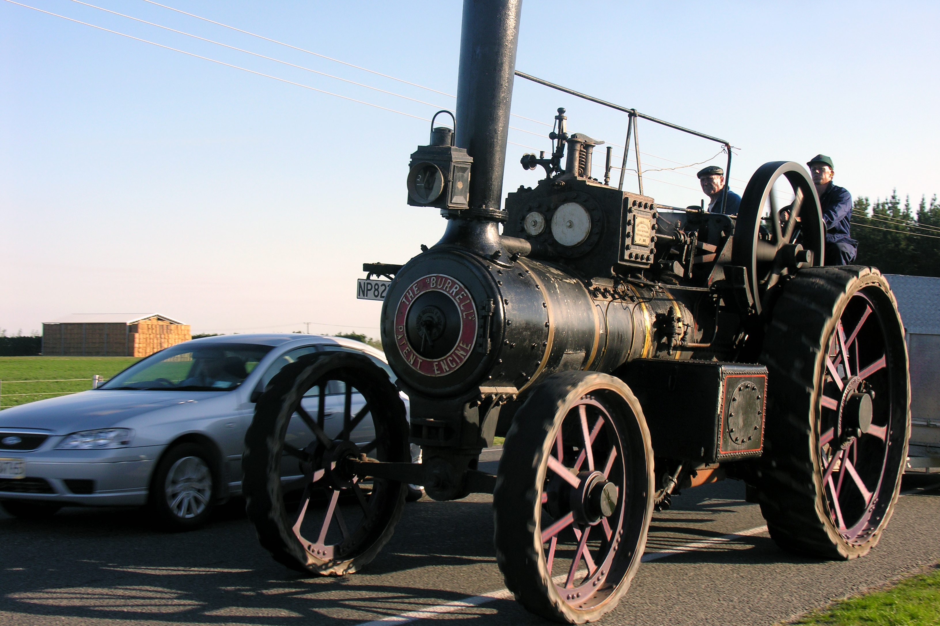 Burrell traction engine at Canterbury, New Zealand